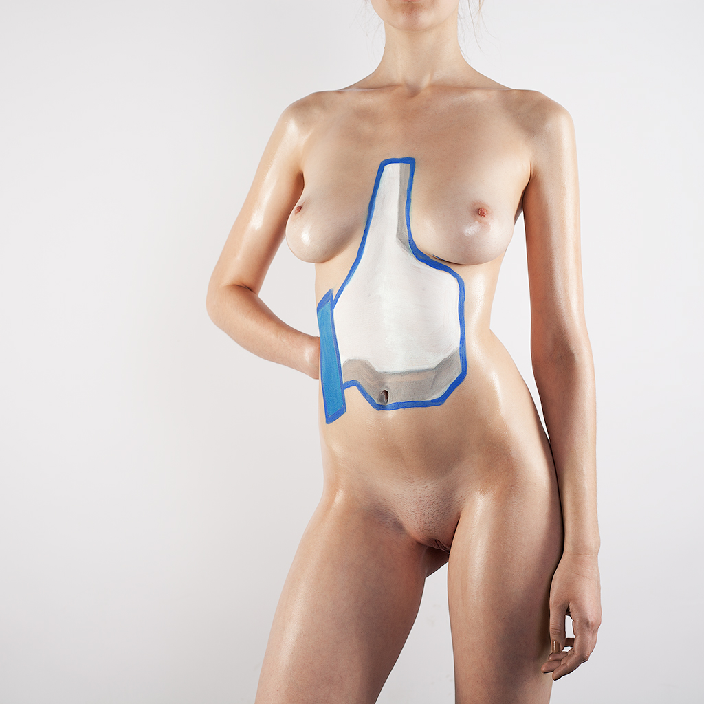 Trunk of naked woman having a facebook like button painted on the abdomen